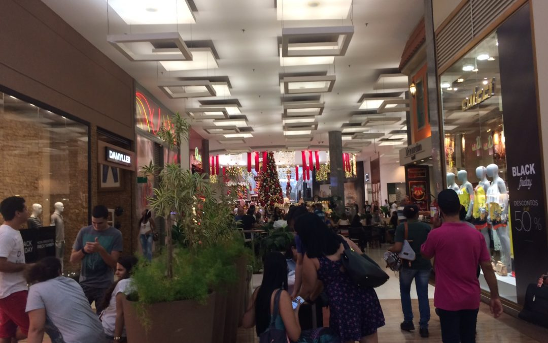 Shopping uberaba mg